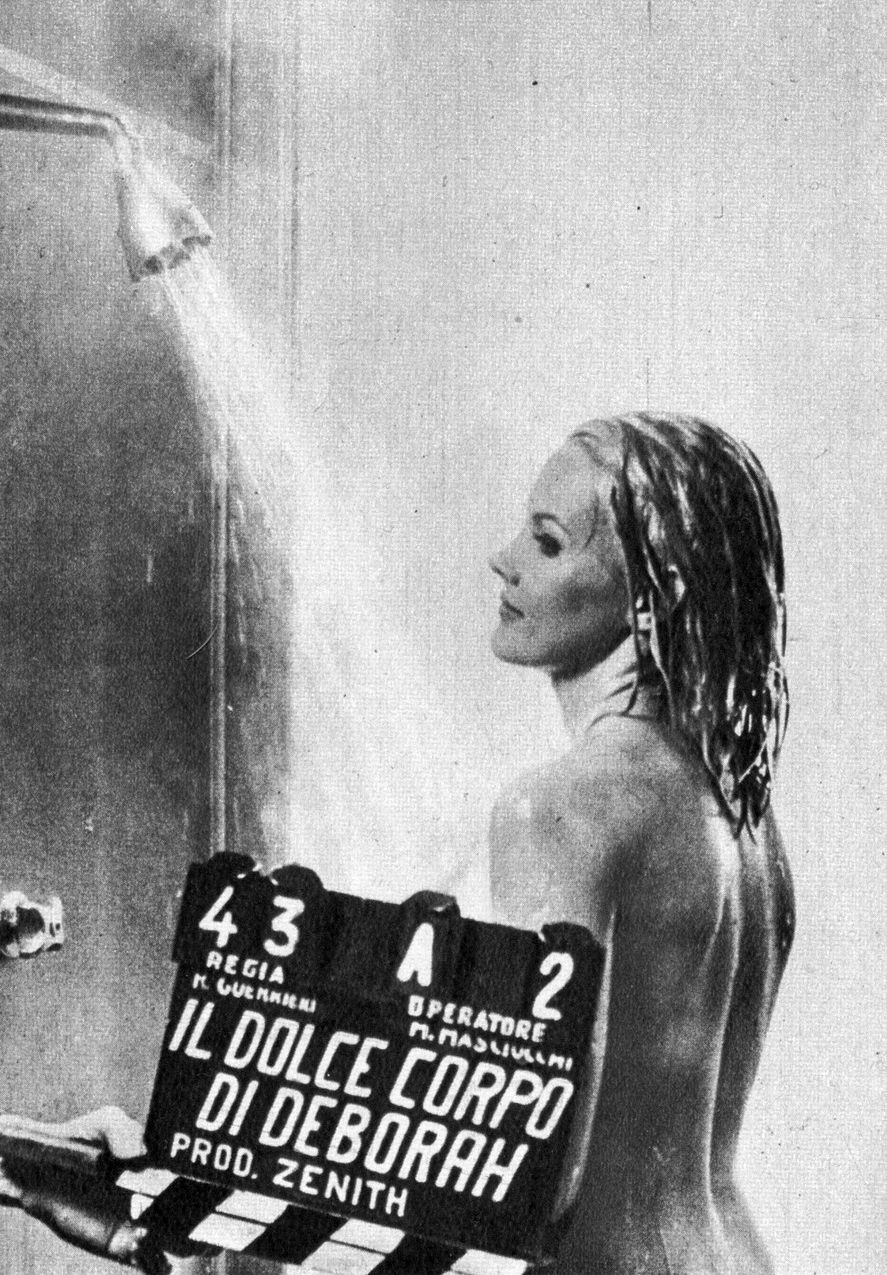 Rome (Italy), De Paolis Studios. American actress Carroll Baker on the set of the movie “The Sweet Body of Deborah” (“Il dolce corpo di Deborah”) by Romolo Guerrieri, 1968.